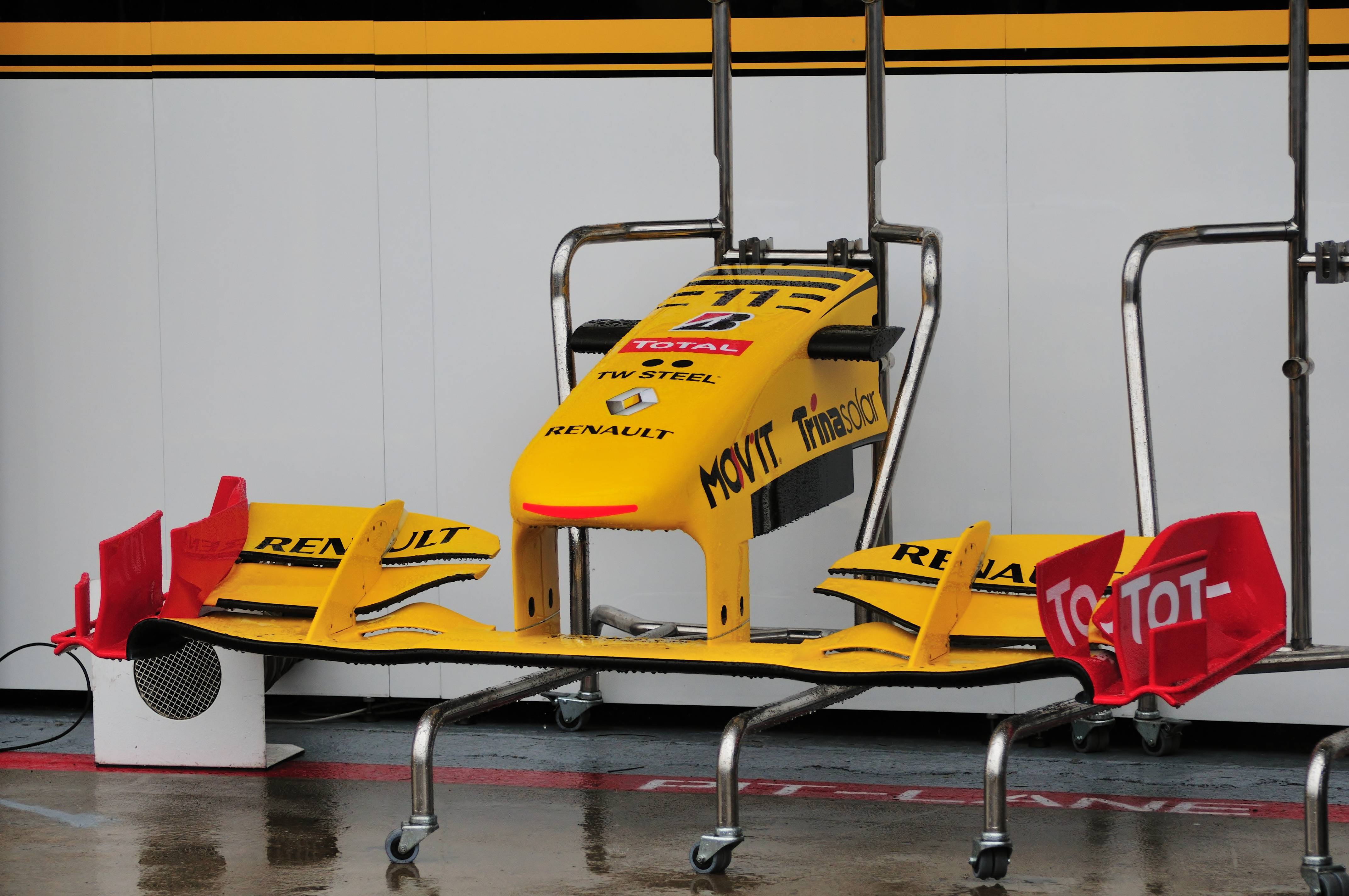 Robert Kubica's Renault R30 nose and front wing